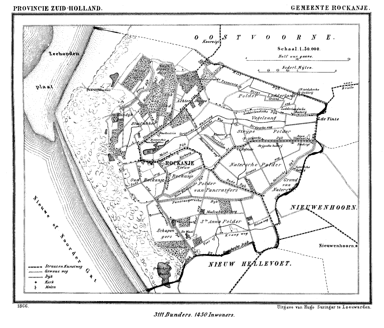 Historic map of Rockanje (now part of municipality Westvoorne), South Holland, the Netherlands